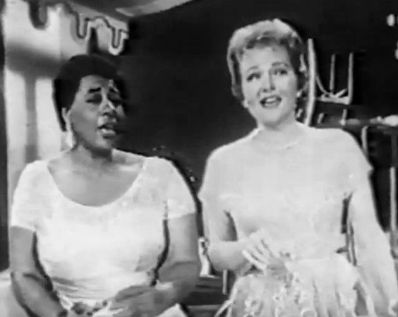 Screen capture from the television special "Swing Into Spring". Pictured are Ella Fitzgerald and Jo Stafford as they performed.